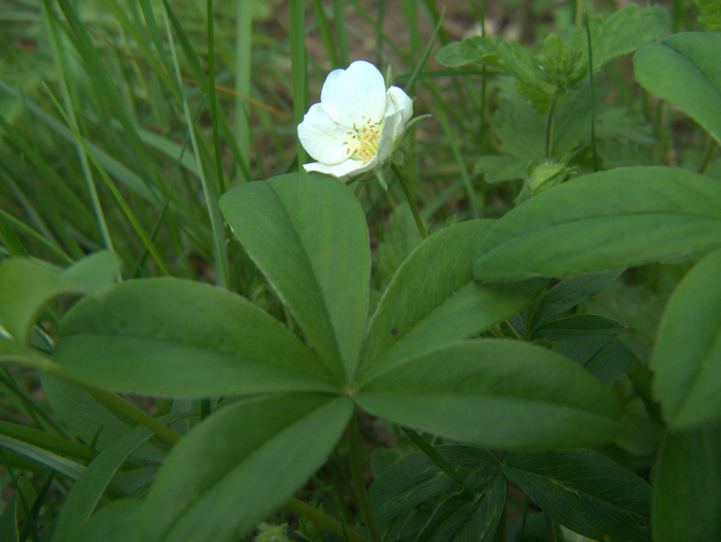 Potentilla alba at Vác - Naszály mountain, Hungary.